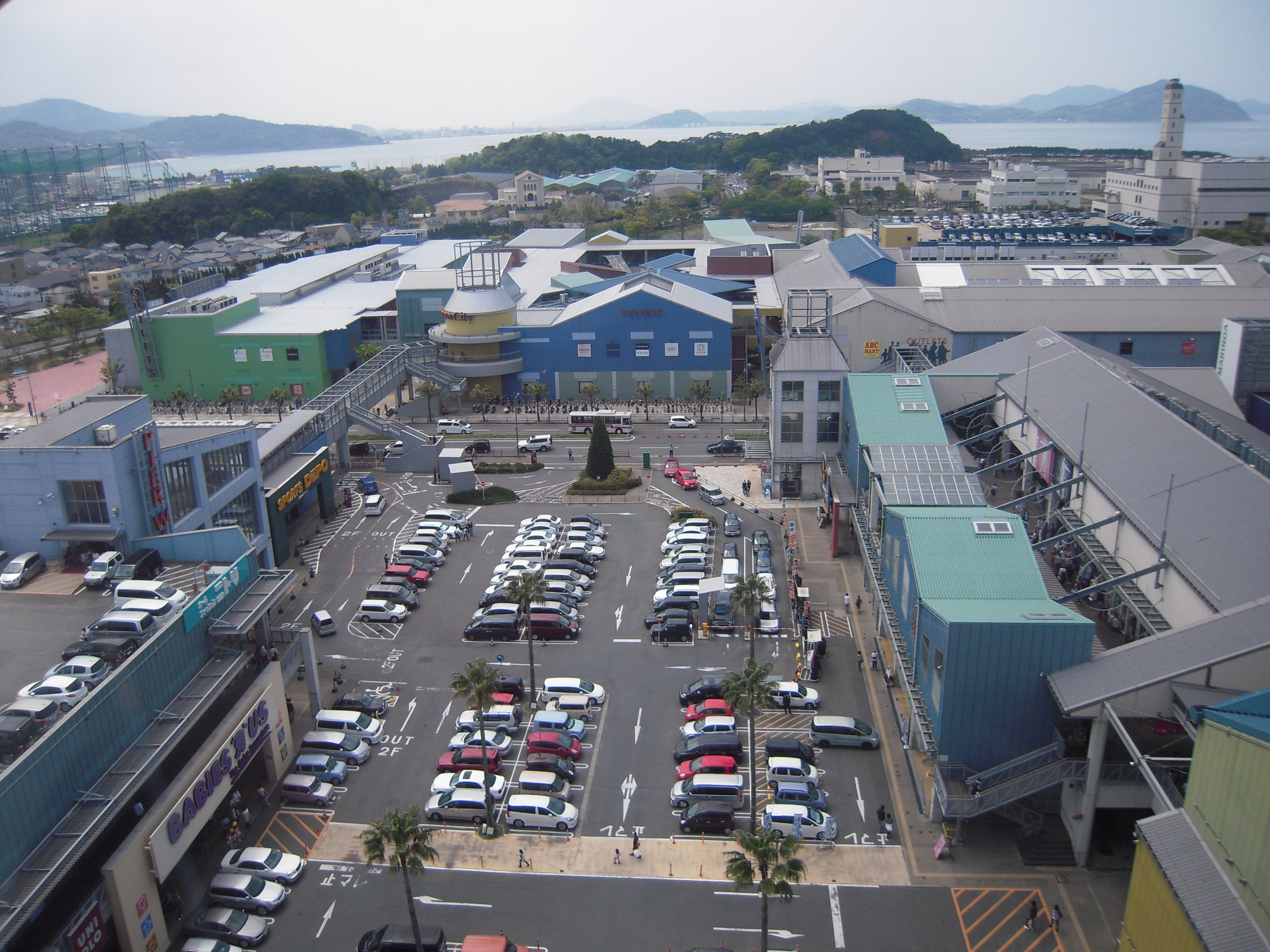 The scenery of Marinoa City Fukuoka from the Skywheel ferris wheel. Marinoa City Fukuoka, the largest shopping mall in Kyushu, is located in Odo, Nishi-ku, Fukuoka, Japan.